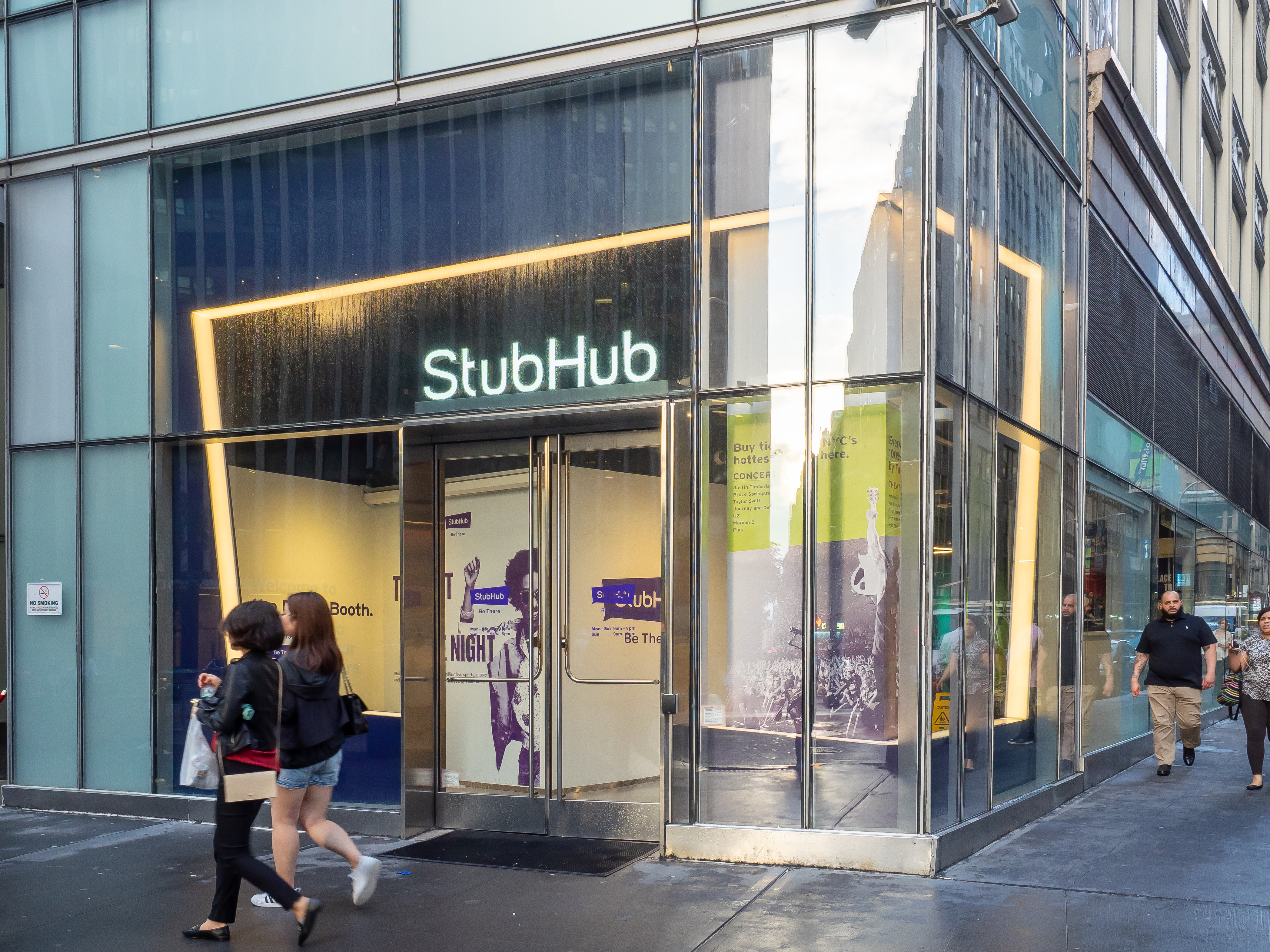 Midtown, NYC